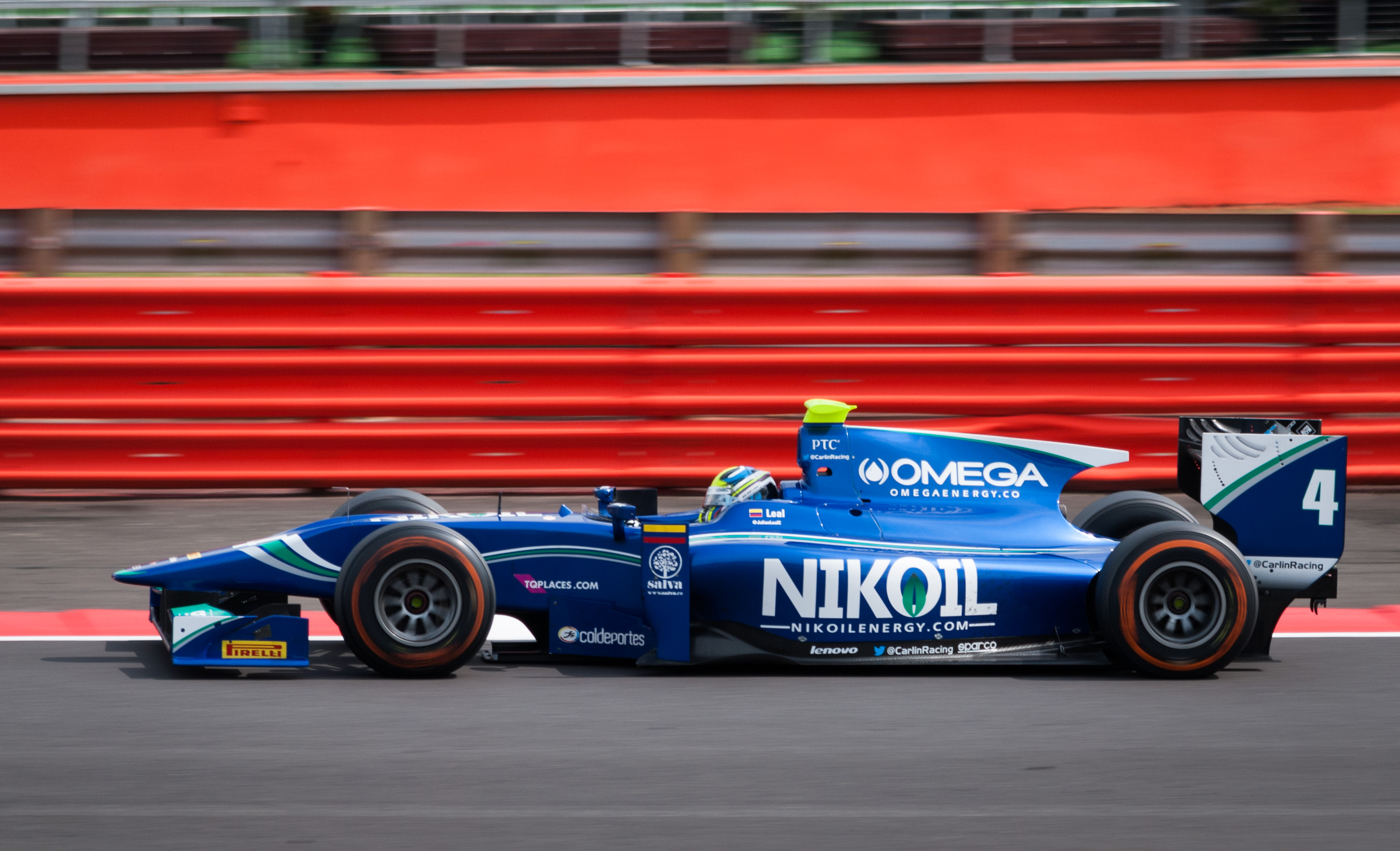 Julián Leal driving for Carlin Motorsport at Silverstone. Round 5 of the 2014 GP2 Series Championship.